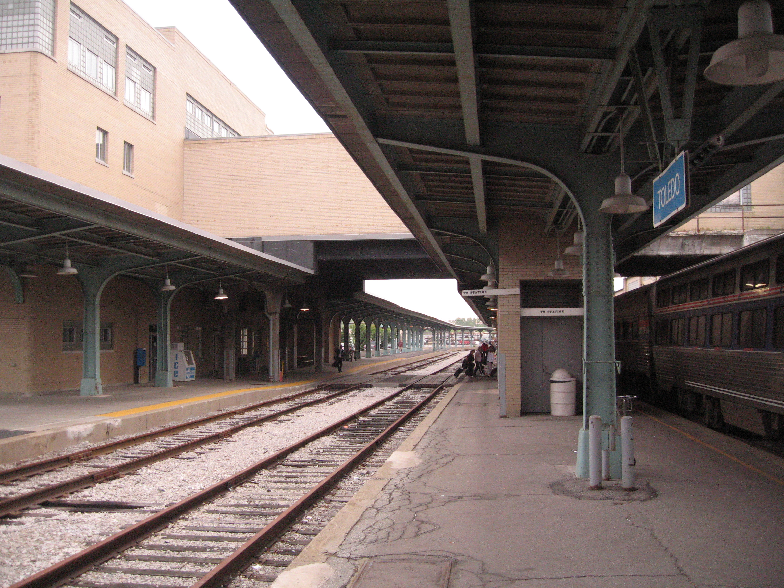 Toledo Amtrak Station, September 22nd, 2006